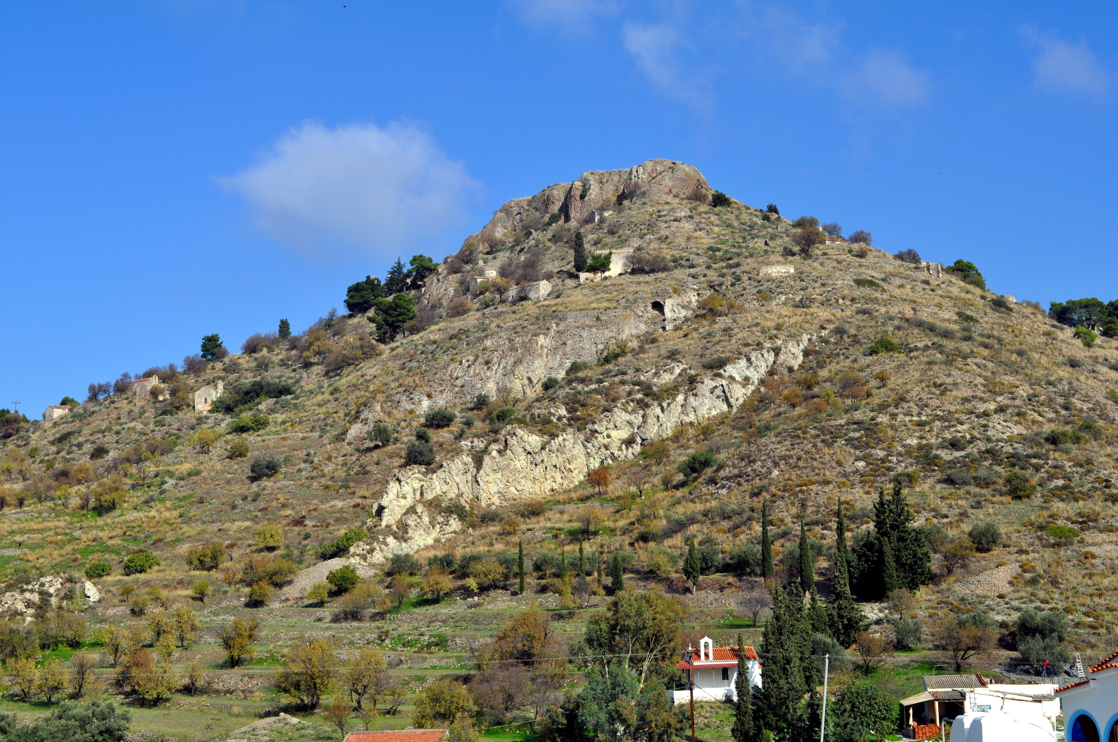 View of Aegina. In the mid/background, the hill of Palaiochora (or Paleochora, gr. Παλαιοχώρα), an abandoned village. While the houses are completele destroyed, more than 30 churches and chapels have been preserved.